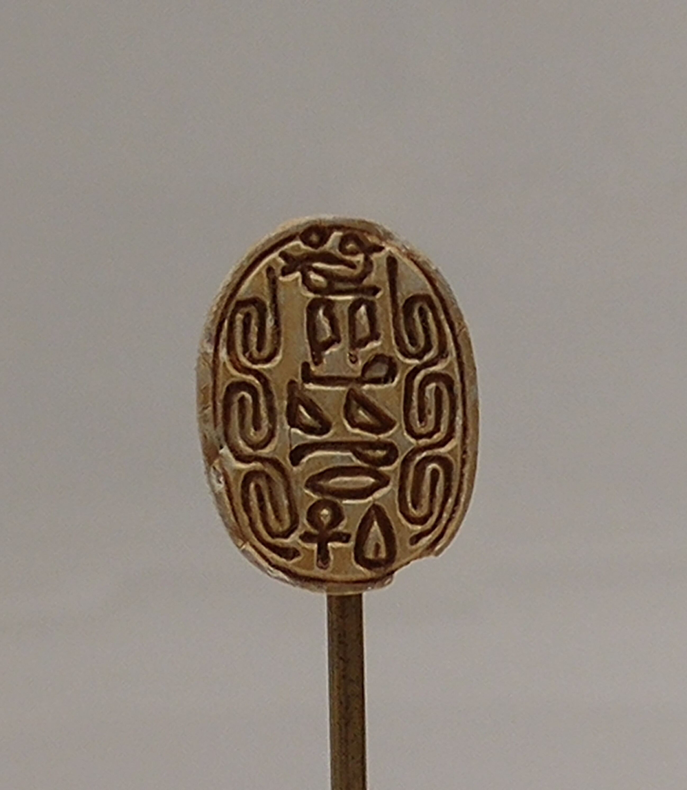 Egyptian Scarab from Tel-Shikmona bearing the cartouche of the Hyksos ruler Yaqub-Har.